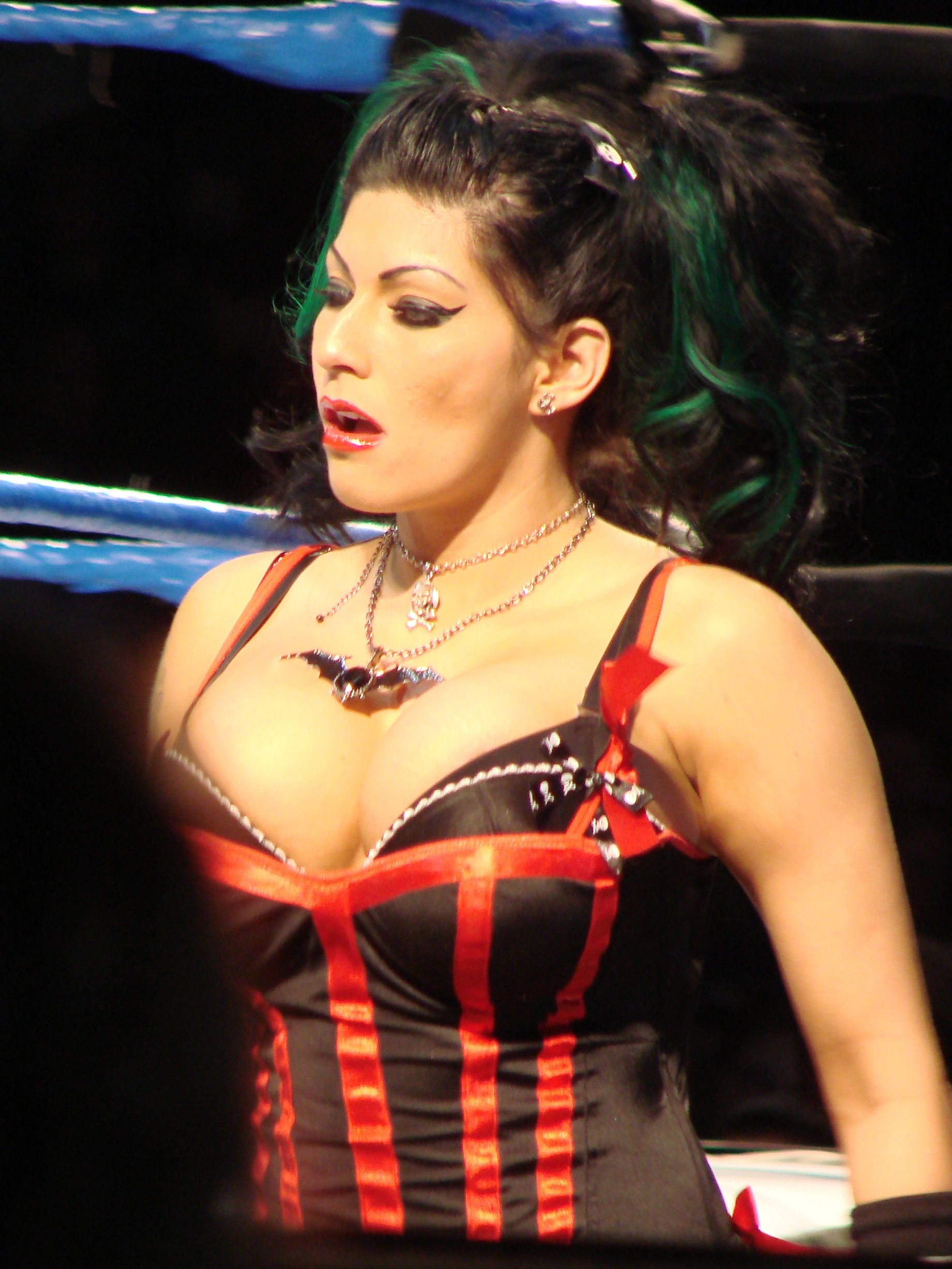 Shelly Martinez at an Extreme Championship Wrestling (ECW) live event. Assembly Hall (Champaign, IL), Champaign, IL, February 4 2007.